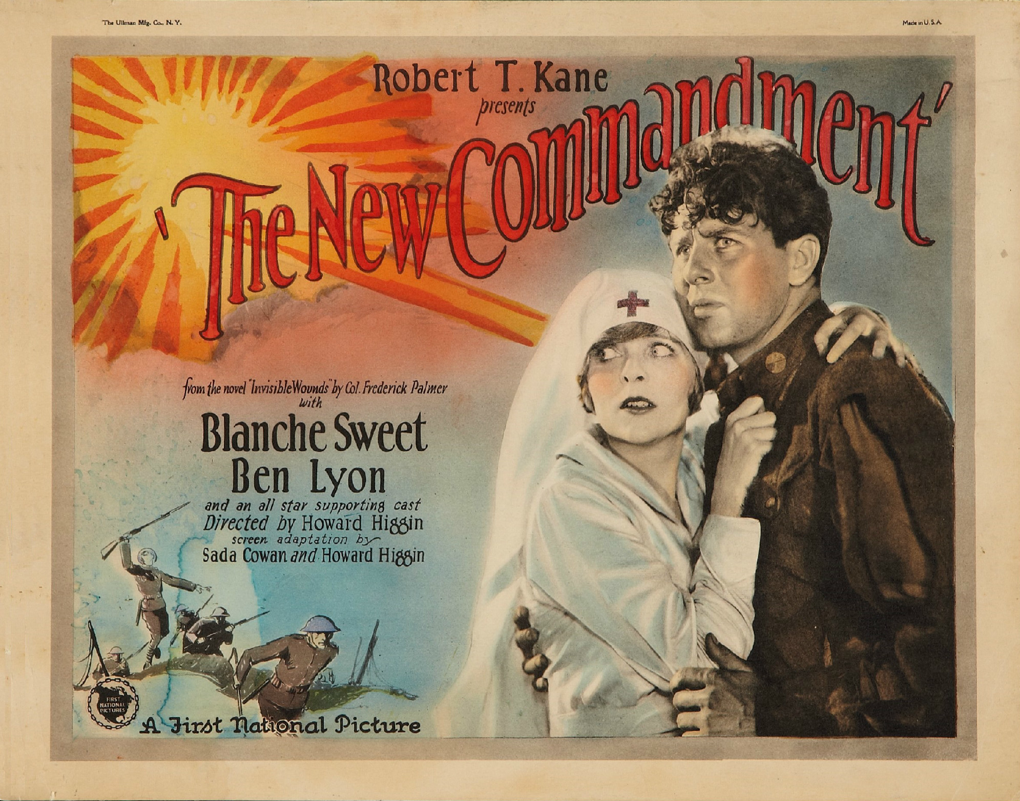 Lobby card for the American war drama film The New Commandment (1925).